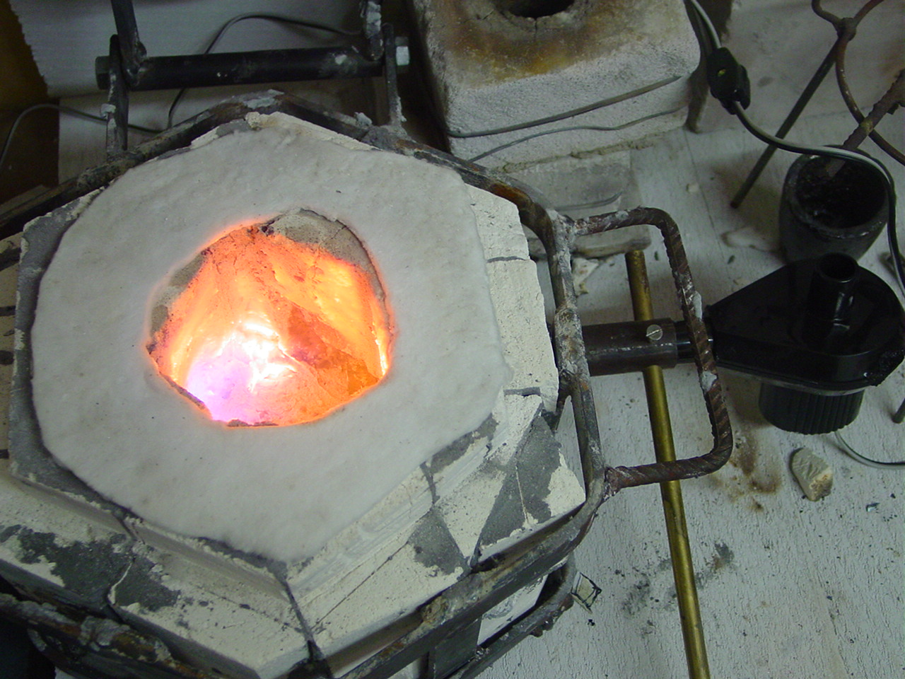 Propane air burner with forced air blower into furnace.